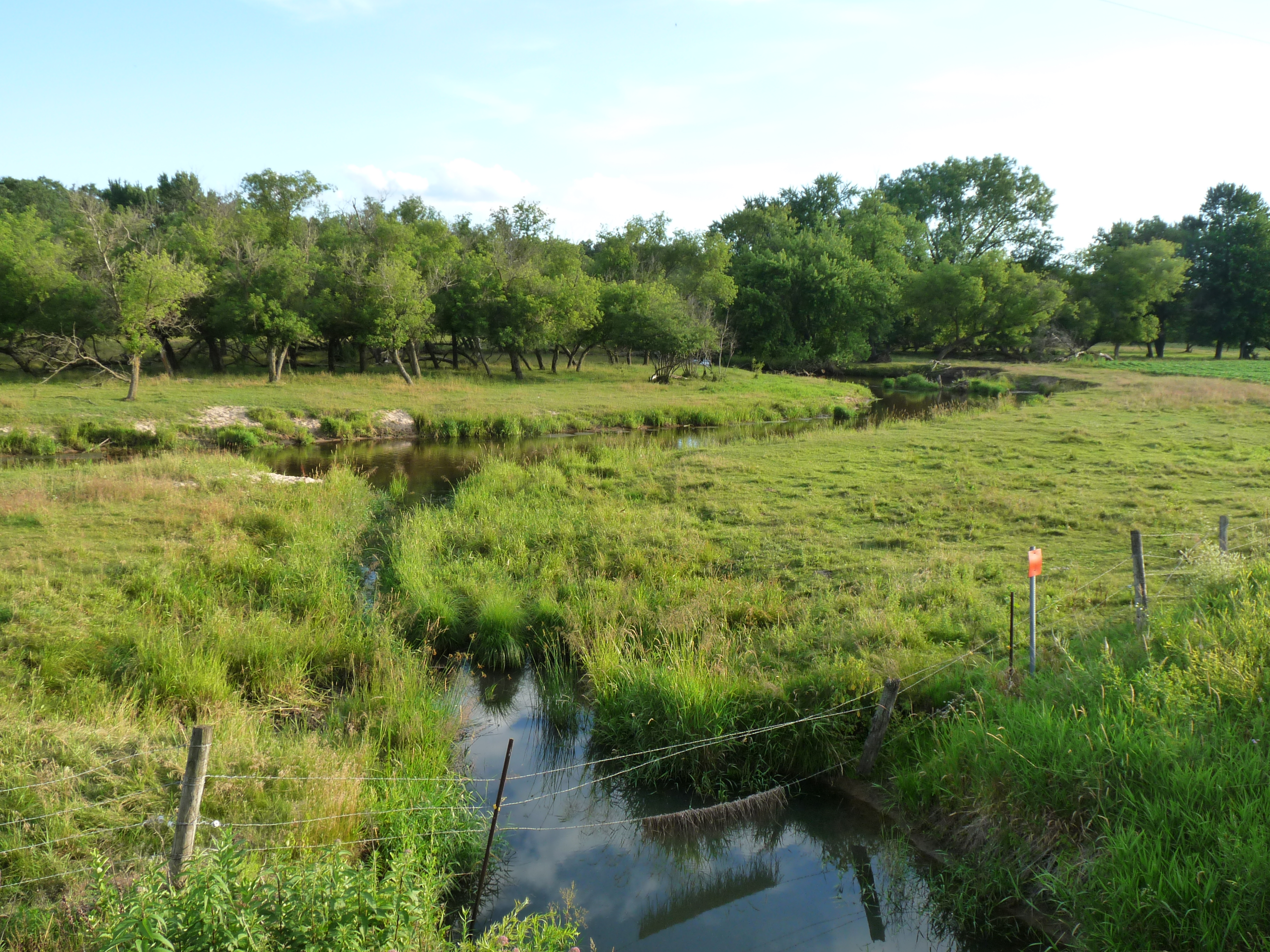 The Buffalo River in western Wisconsin flows generally west-southwest into the Mississippi. Pictured is a stream flowing into the river west of Osseo.